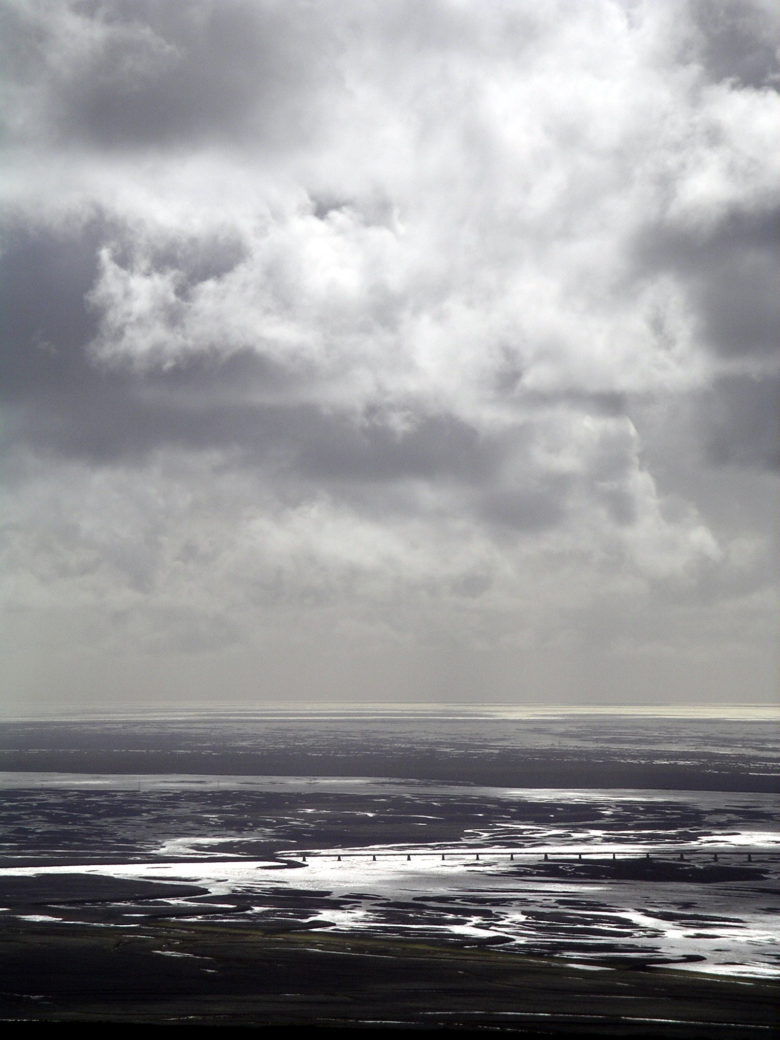 Skeidarásandur and a Hringvegur bridge, seen from Skaftafell (Iceland)